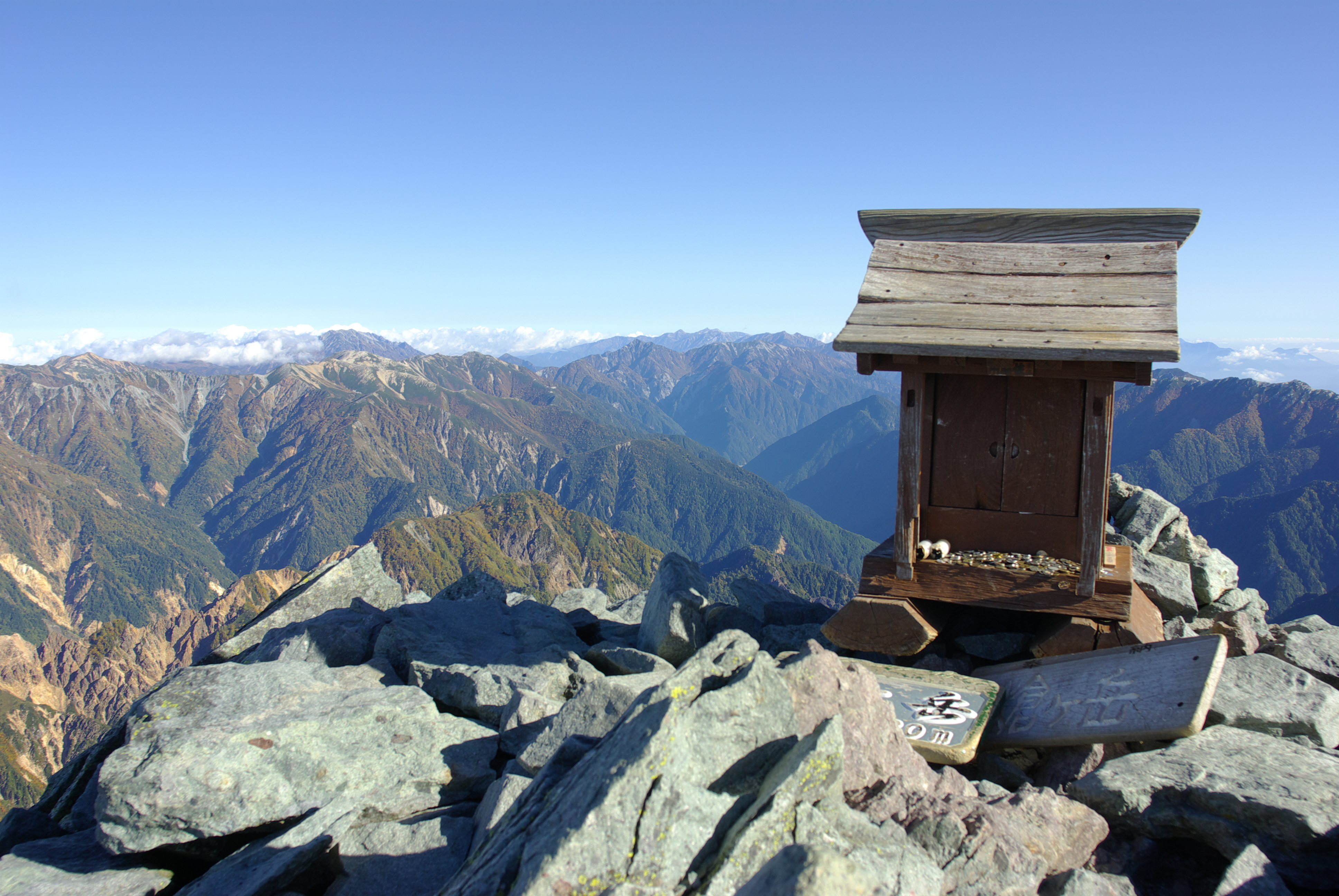 Shrine on Mount Yarigatake summit